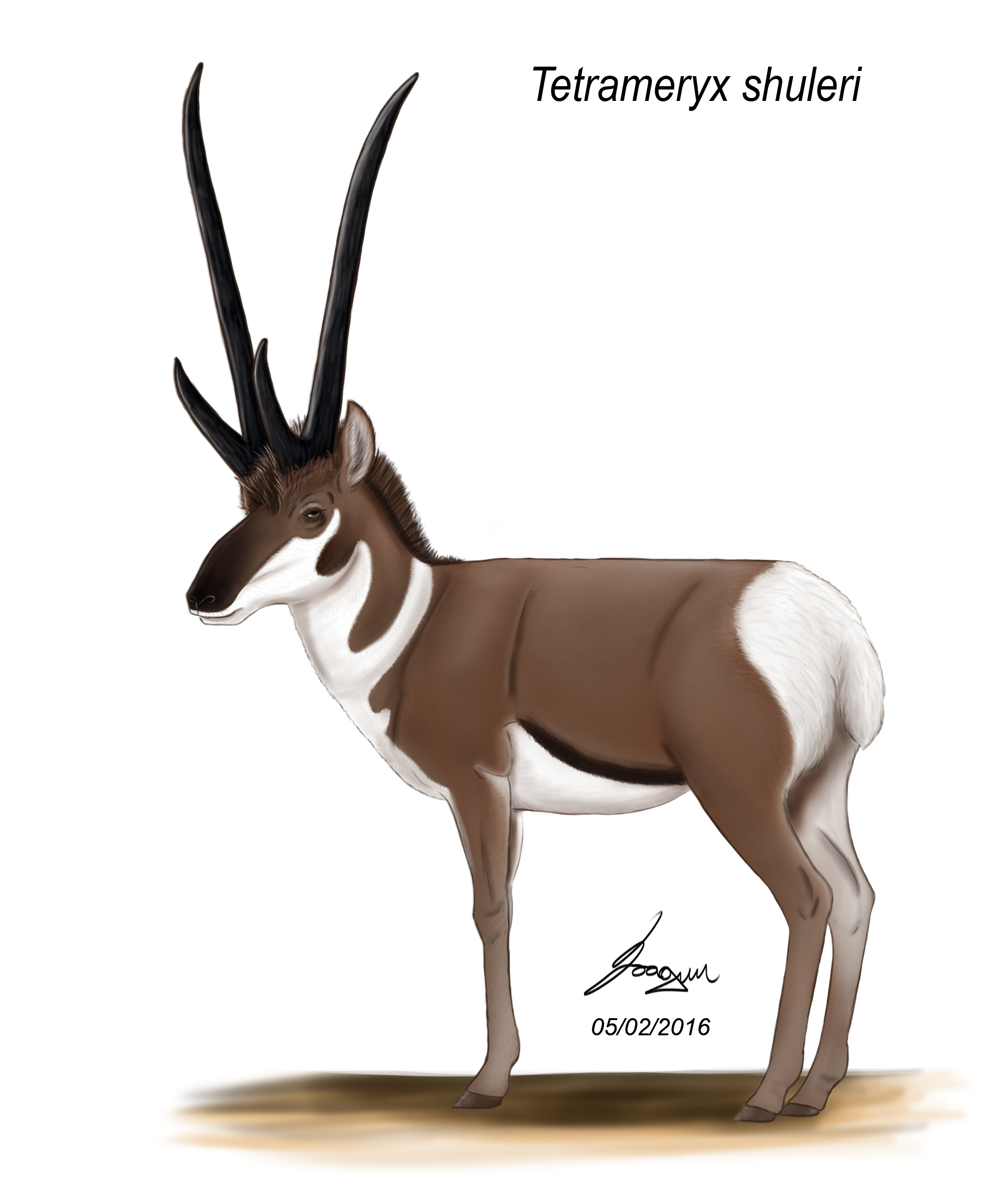 A life reconstruction of Tetrameryx shuleri using skeletal comparissons with modern pronghorns, and advised by Roberto Díaz Sibaja.